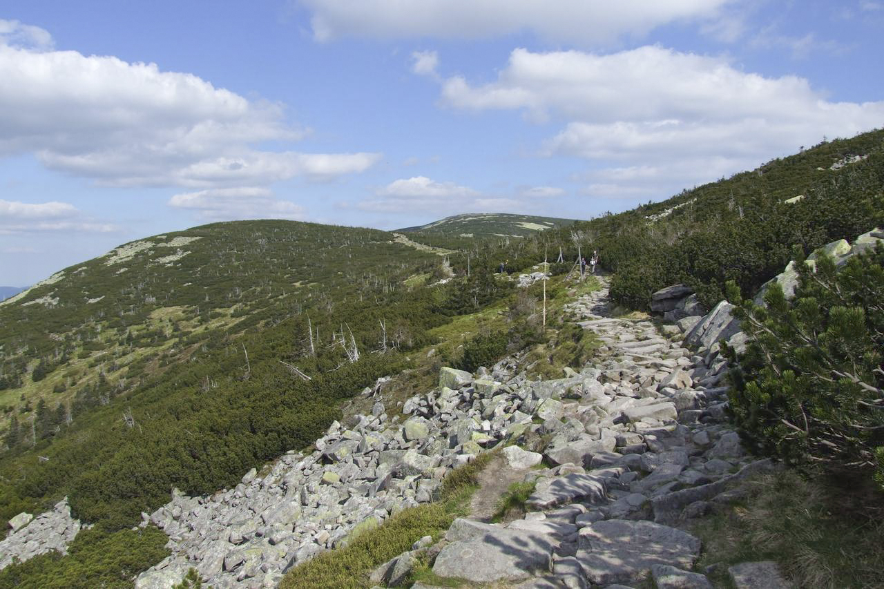 Tępy Szczyt from the slope of Malý Šišák in the Krkonoše mountains